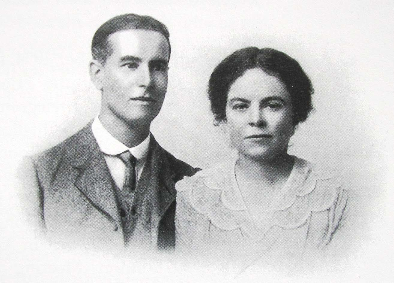 Portrait of Corder and Gwen Catchpool, Quakers, ca 1927